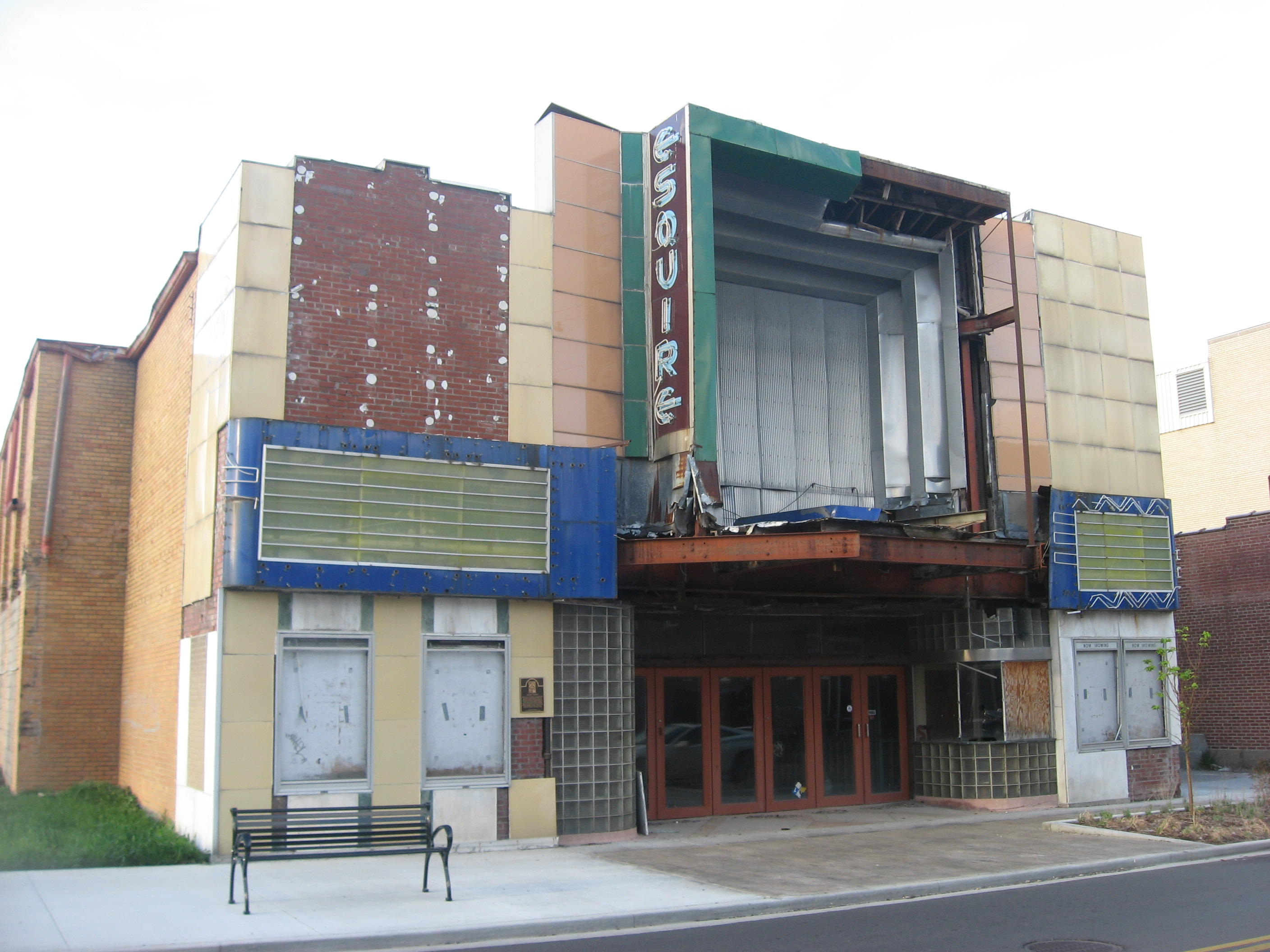 Front of the Esquire Theater, located at 824 Broadway Street in Cape Girardeau, Missouri, United States. Built in 1947, it is listed on the National Register of Historic Places.